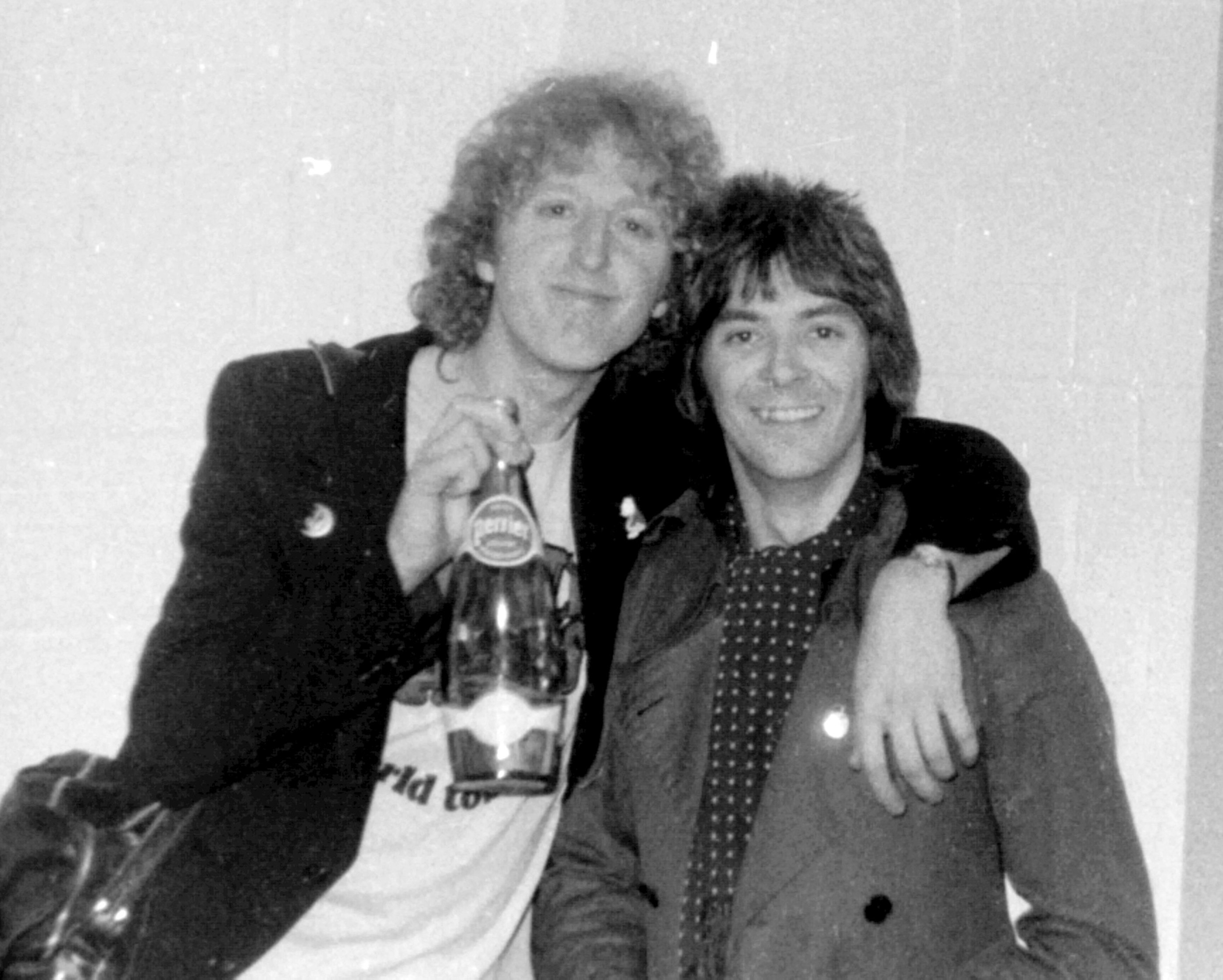 Rick Wills and the late Ian McLagan, backstage at the Manchester Apollo Theatre 1978